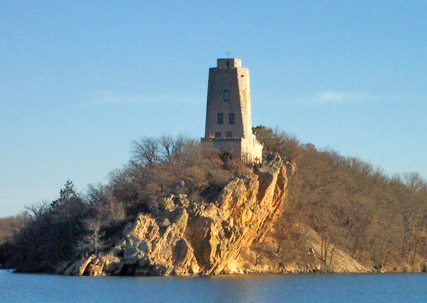 I took this photo myself. Category:Images of Oklahoma